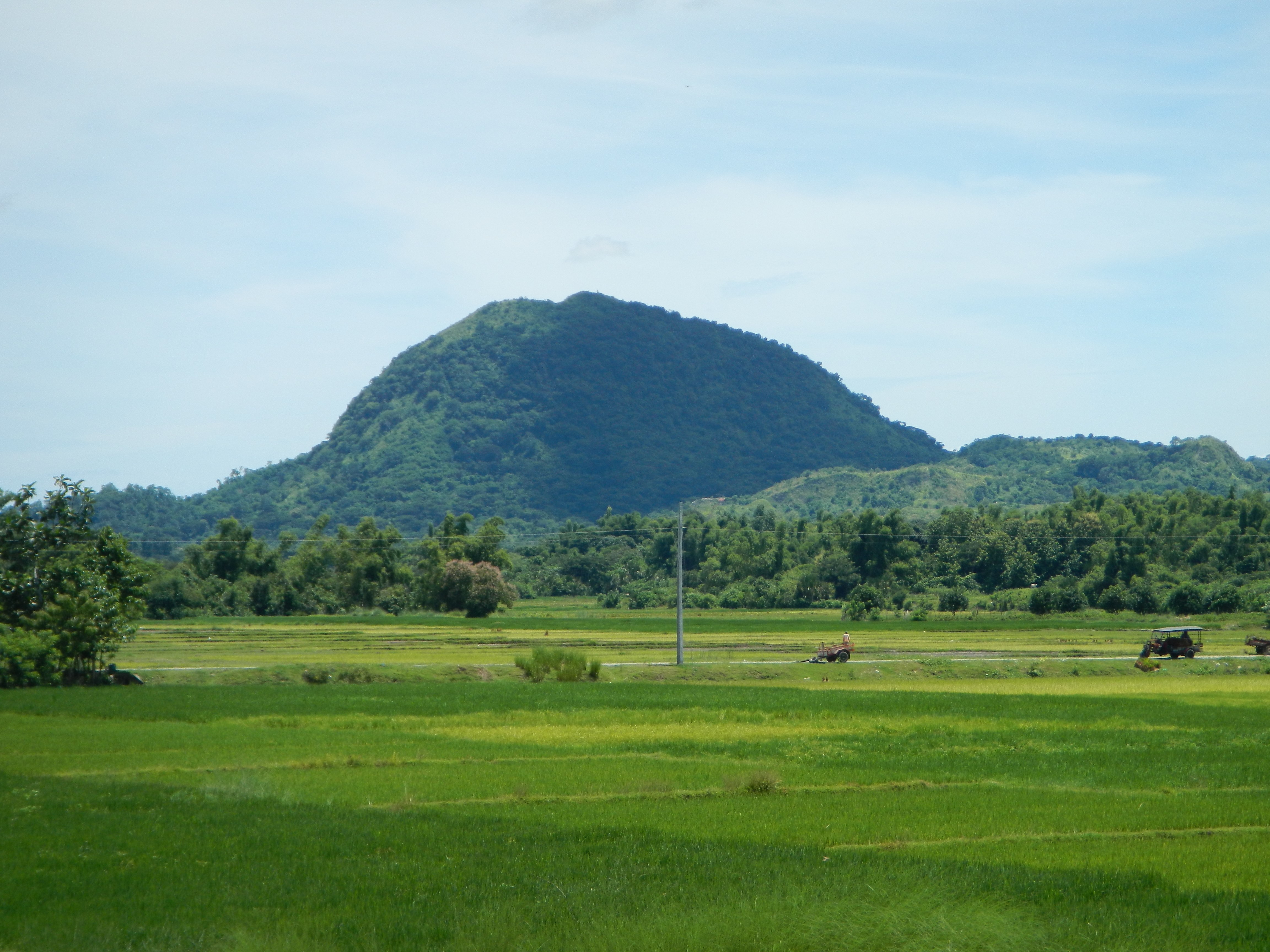 UploadWizard photos of Barangays Angayan Sur & San Aurelio 1st Bridge II Km 200 + 584 Balungao, Pangasinan [1] is a municipality in the province of Pangasinan[2] in the Philippines subdivided into 20 barangays) [3] [4] Land Area: 73.25 km² ZIP Code: 2442 Coordinates: 15°53'10"N 120°42'7"E Mt. Balungao Hot & Cold Springs Resort [5] [6] [7] Mount Balungao [8] (15°51′44.90″N 120°40′57.70″E) is an extinct volcano[9], 382 metres (1,253 ft) ASL located in Balungao amid the presence of hot and cold springs; Philippine Institute of Volcanology and Seismology (PHIVOLCS)[10] lists Mount Balungao as an inactive volcano.[11] Coordinates: 15°51'47"N 120°40'54"E -[12] [13] it is 383 meters high and has both hot and cold springs; one of only two found in Pangasinan (Mt. Manleluag Spring National Park in Mangatarem); Balungao Hilltop Adventure, it is the longest Zip Line in Region 1. The Zip Line has a length of 600 meters.[14]